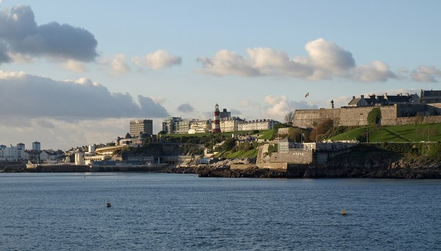 Plymouth from Mount Batten. Looking across the northeast corner of Plymouth Sound. By the water right of centre is the Royal Plymouth Corinthian Yacht Club, below Madeira Road and The Citadel . Smeaton Tower and The Hoe are in SX4753. See 1214533 for a closer zoom on the centre of this scene.